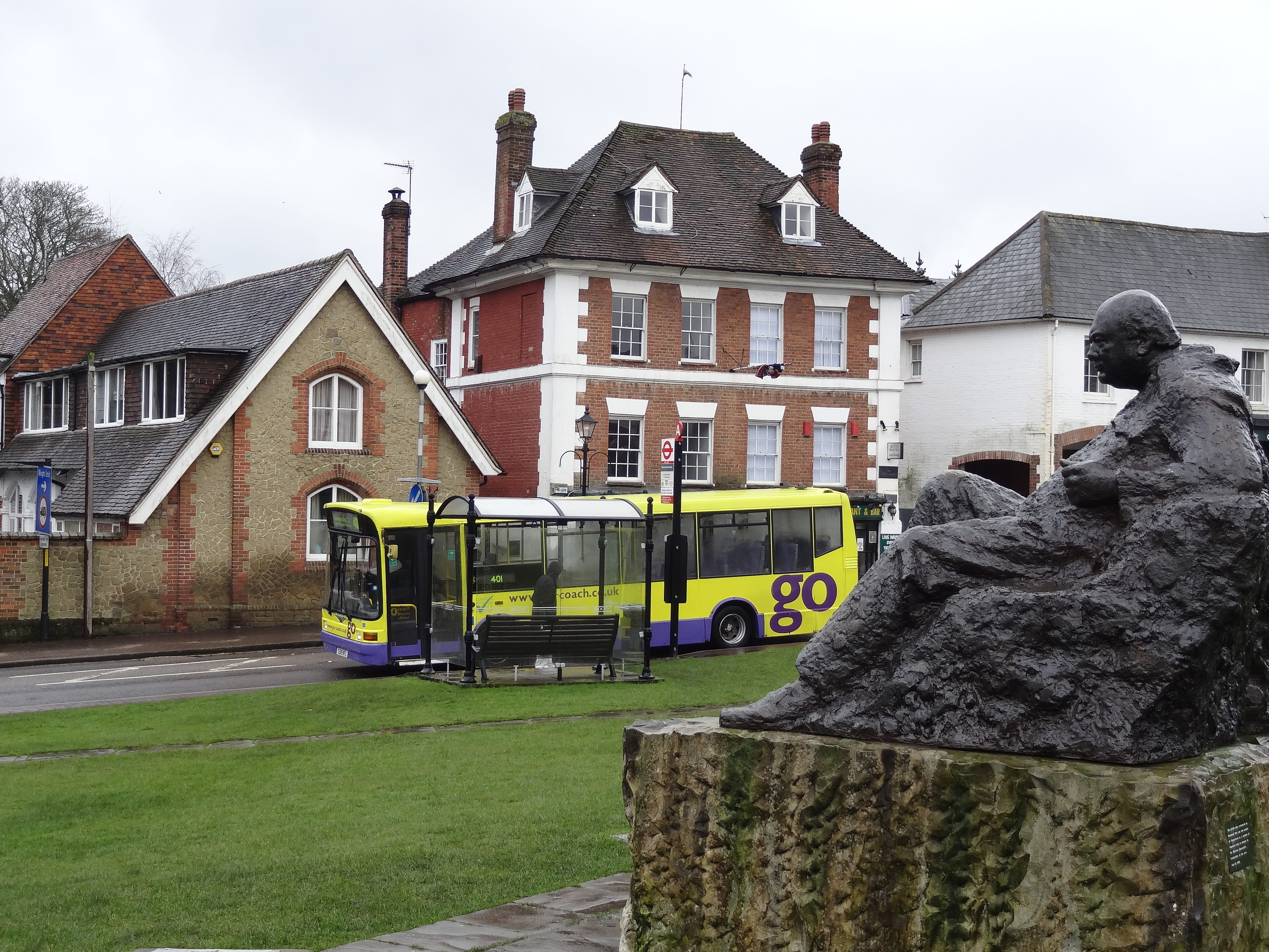 S519KFL Marshall Bus